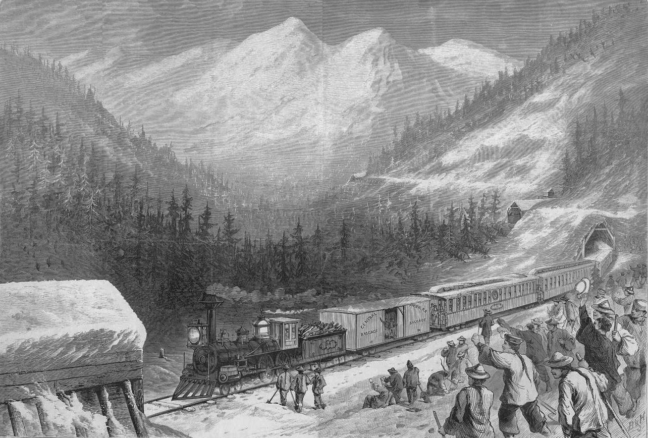 Illustration, "Across the Continent. The snow sheds on the Central Pacific Railroad in the Sierra Nevada Mountains. From a sketch by Joesph Becker." Originally printed in Frank Leslie's Illustrated Newspaper, Vol. 29, February 6, 1870, p. 346.